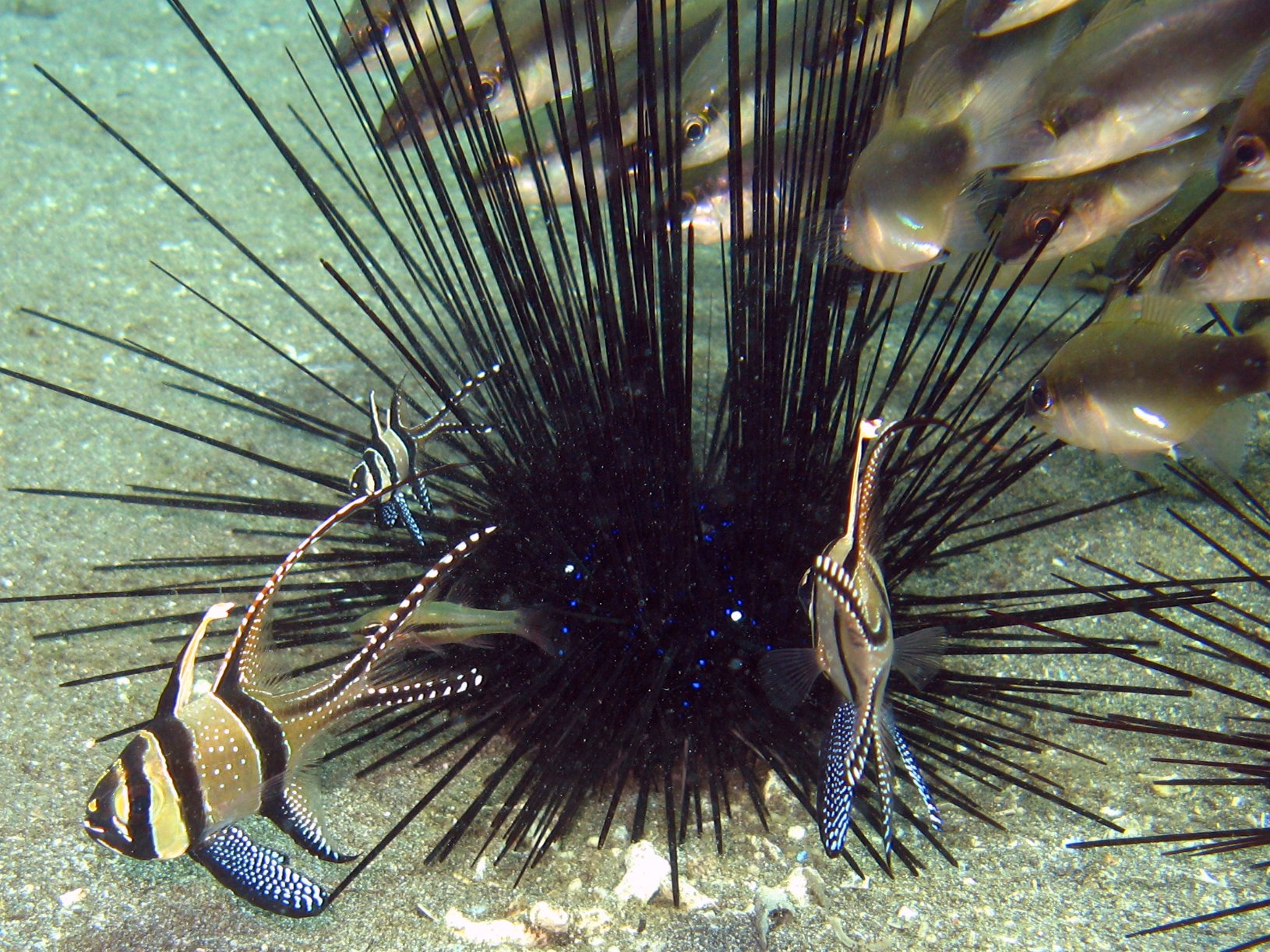 The critically endangered Banggai Cardinal Fish